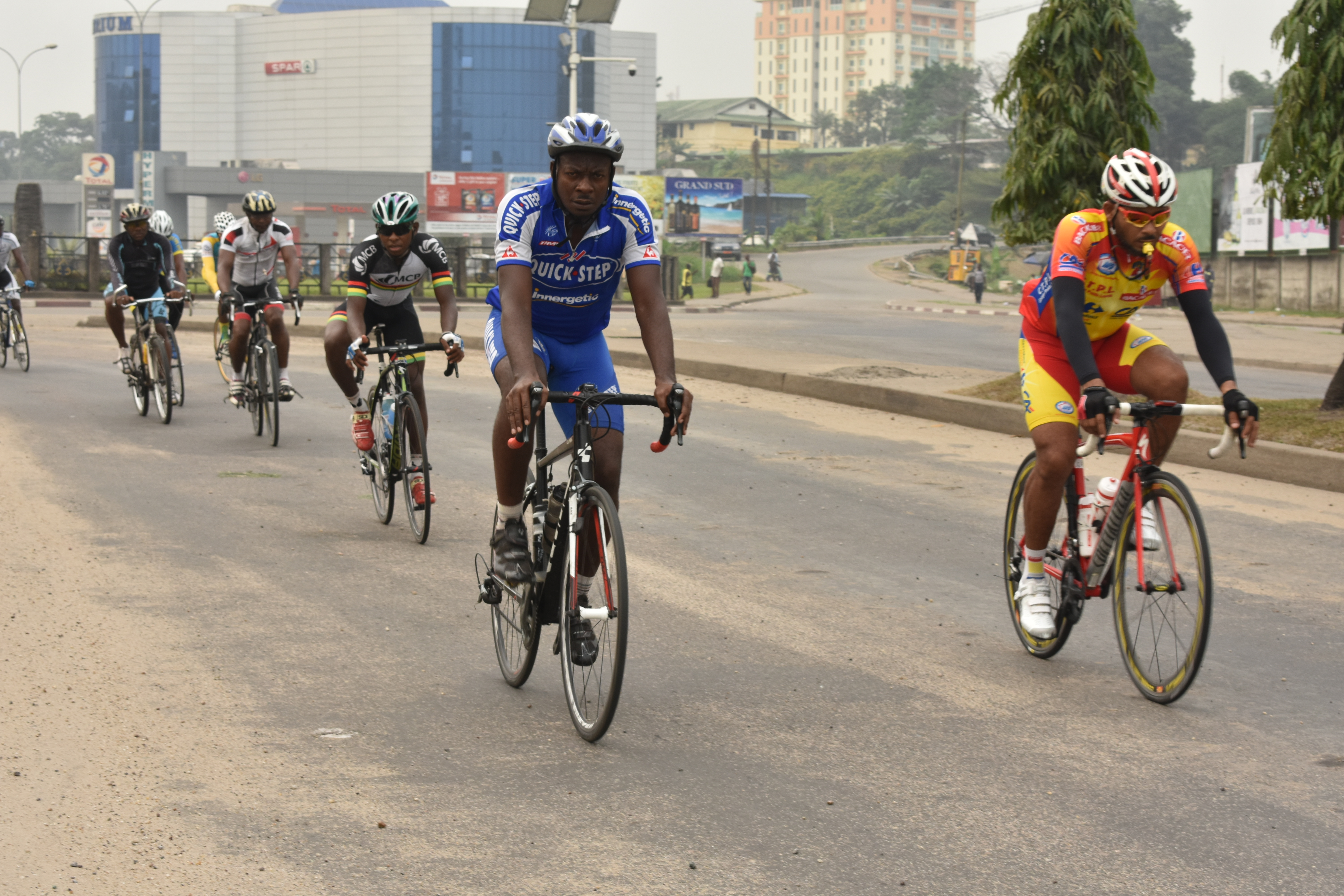 This is an image with the theme "Play" from: Cameroon